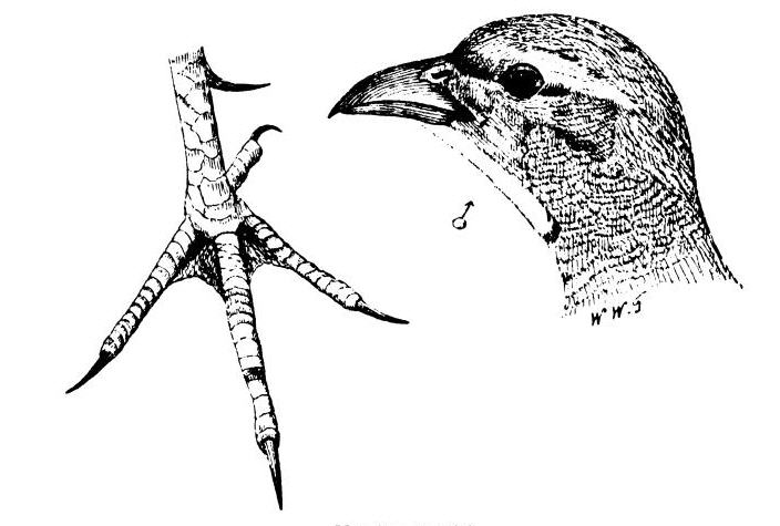 Grey Partridge, Francolinus pondicerianus